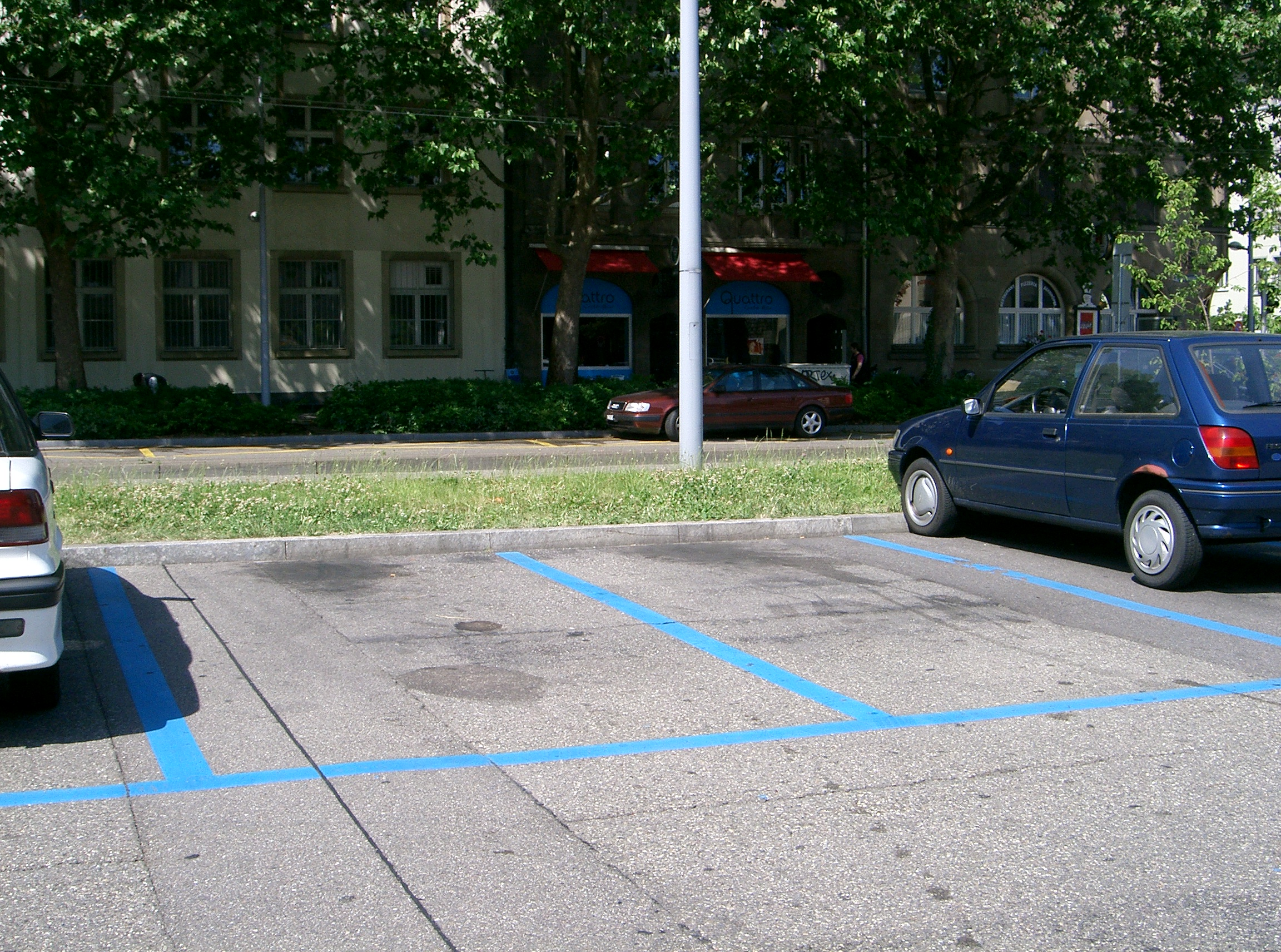 Parking spaces in a blue disc zone in Basle, Switzerland. Note the blue paint.